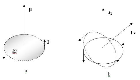 Molecular power 38. Magnetic moment μM of an electric current I around a surface element with area dS in the absence of an external magnetic field and drift of the magnetic moment under the action of an external magnetic field